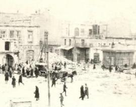 Dmitrov skver and beginning of Dmitrov Street in Baku